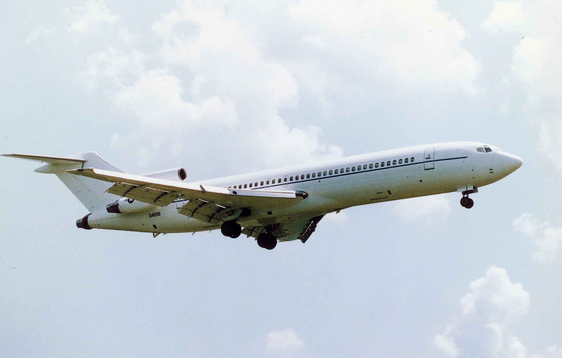 A U.S. Air Force C-22B transport aircraft. The C-22B, a Boeing 727-100, is the primary medium-range aircraft used by the Air National Guard and National Guard Bureau to airlift personnel. The C-22B's unique arrangement of leading-edge devices and trailing-edge flaps permit lower approach speeds, thus allowing operation from runways never intended for a 600-mph (Mach 0.82) aircraft. The aircraft has heated and pressurized baggage compartments - one on the right side forward and the second just aft of the wheel well. The two compartments provide 425 cubic feet (12.75 cubic meters) of cargo space. The fuselage also incorporates a forward entry door and hydraulically opened integral aft stairs in the tail cone.